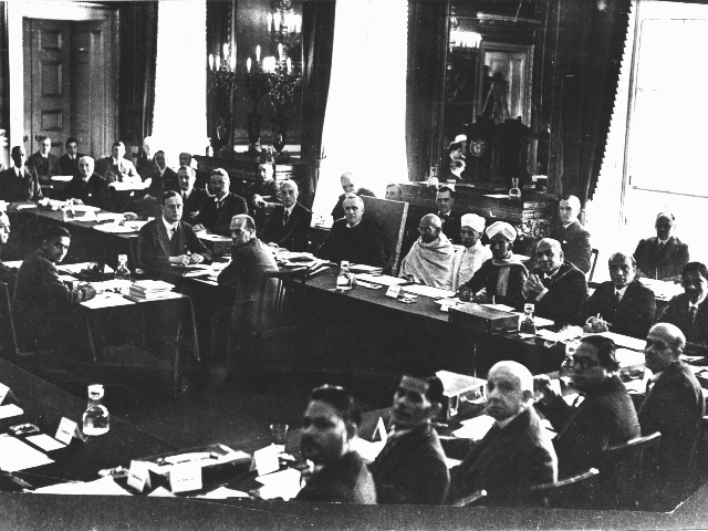 British Prime Minister Ramsay MacDonald to the right of Mahatma Gandhi at the Second Round Table Conference in London, October 1931. Fourth from the left in the foreground is Dr. B. R. Ambedkar, representative of the "Depressed Classes."